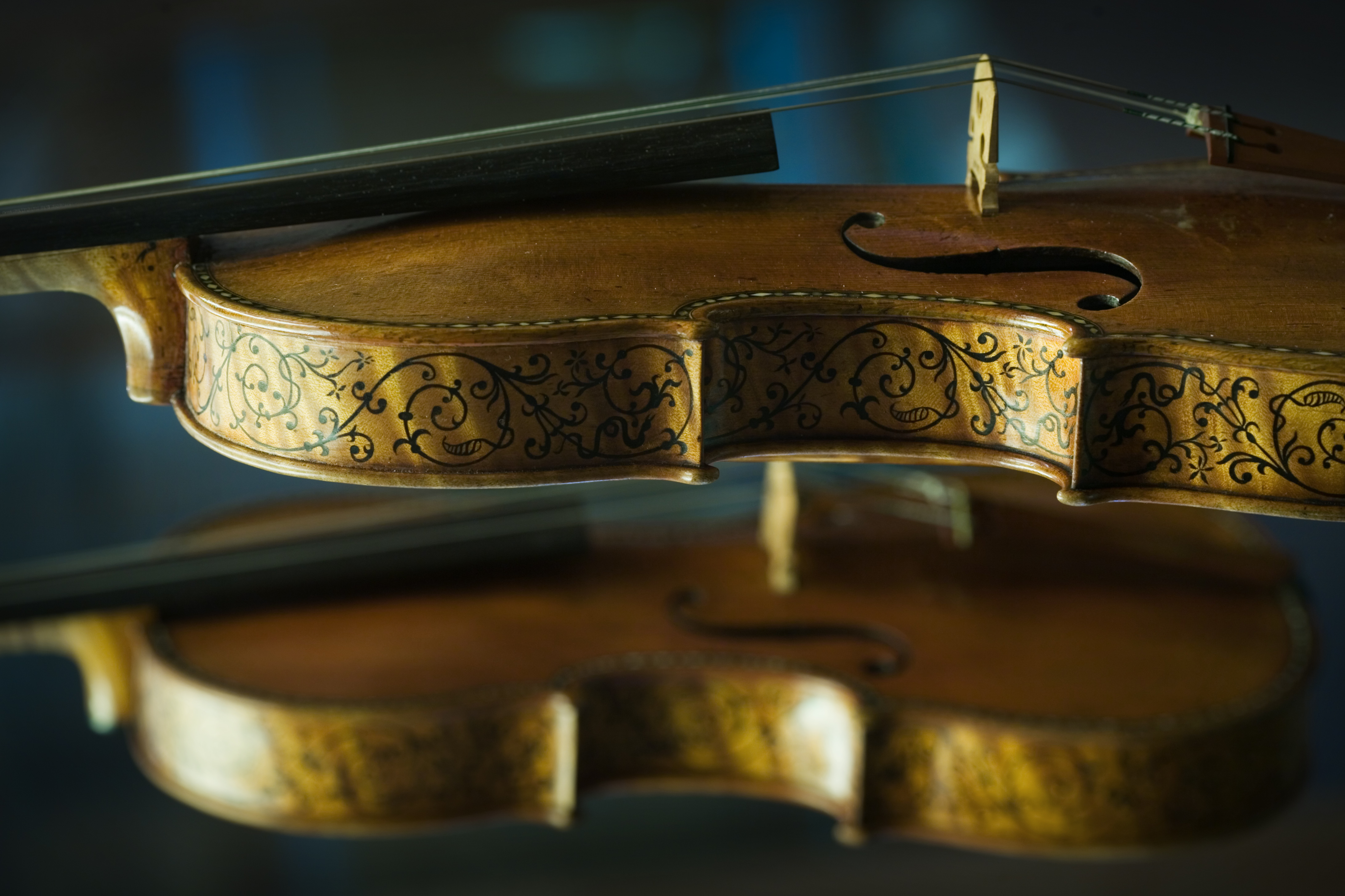 Two Baroque Violins